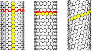 Nanotubes: armchair or zigzag